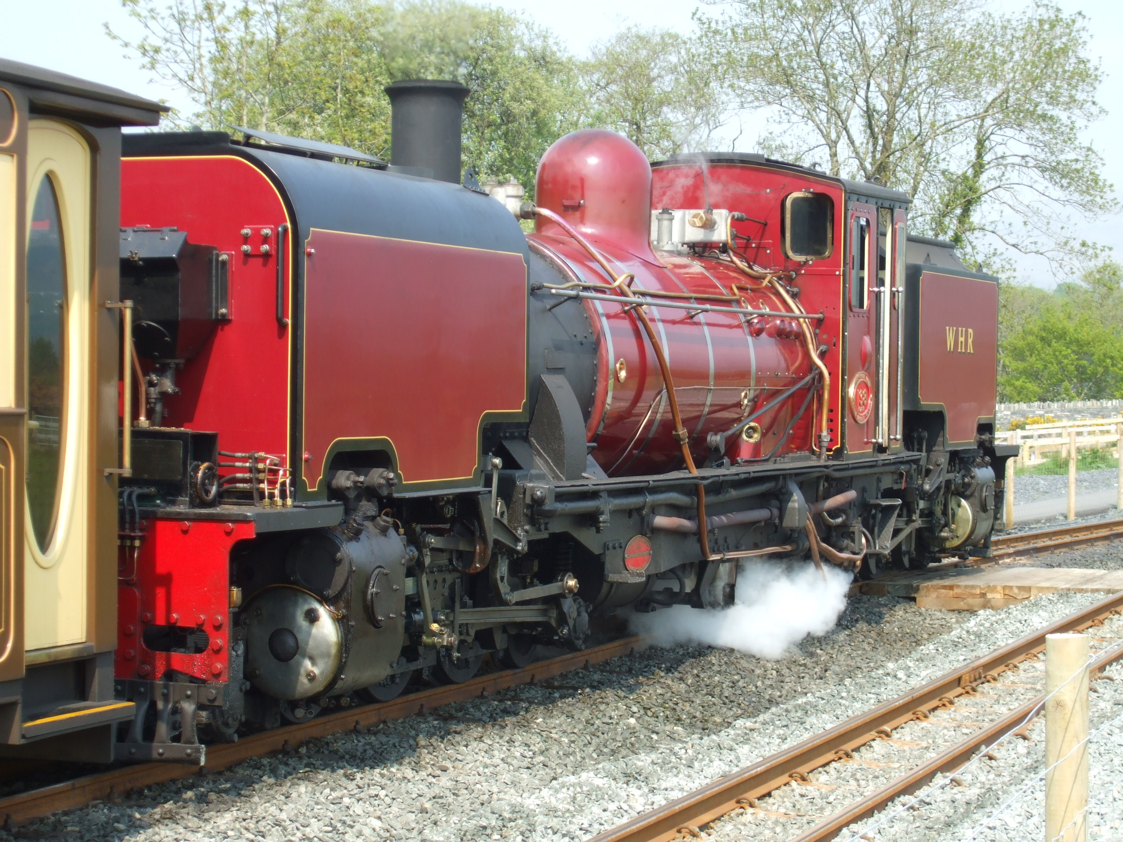 Garratt NGG16 No. 138 at Pont Croesor